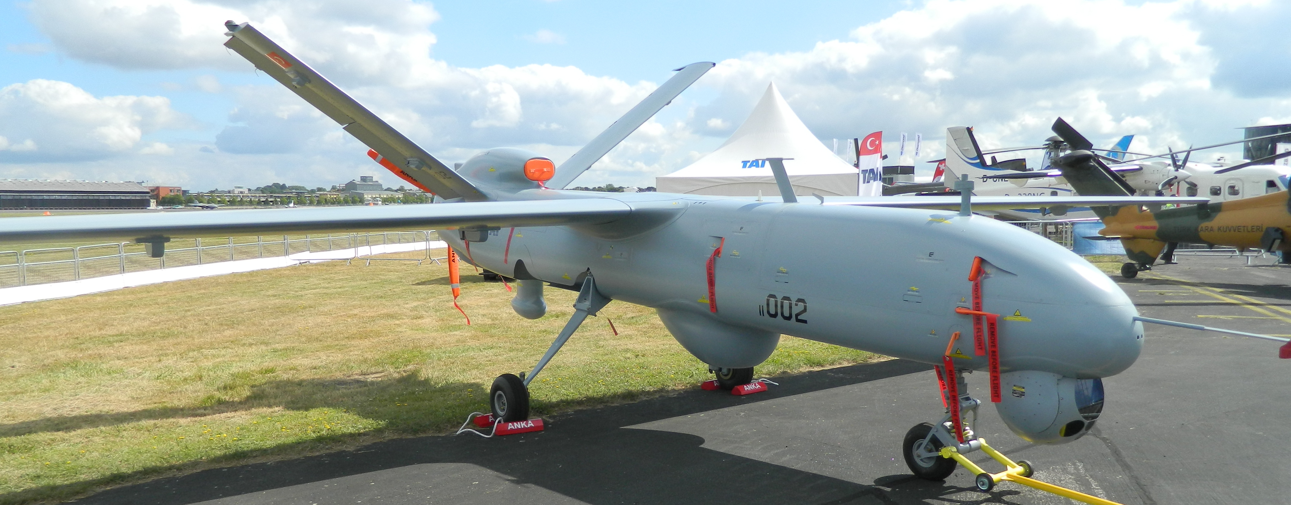 TAI Anka UAV on display at 2014 Farnborough Air Show